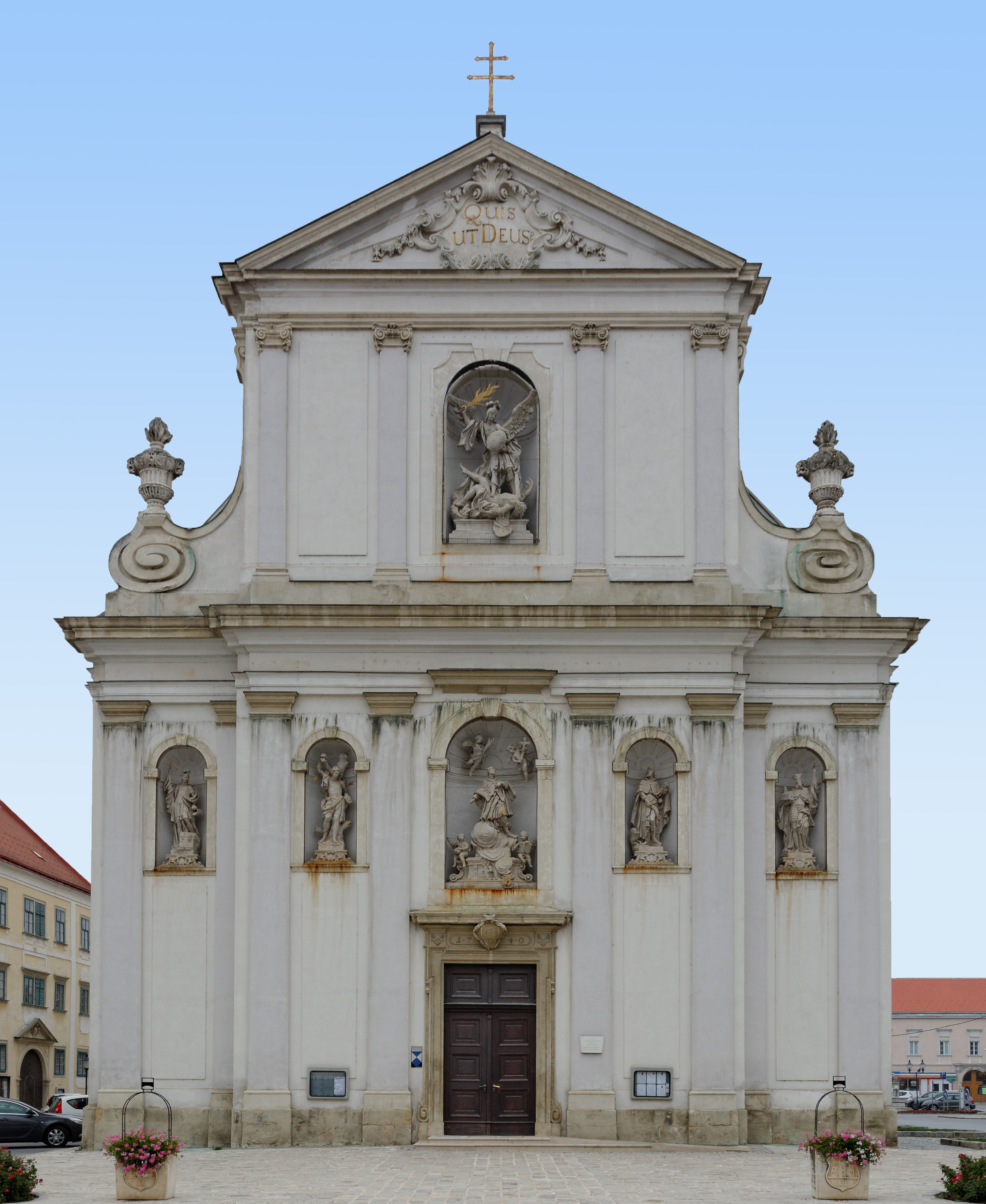 Parish church of Bruck an der Leitha - south side, Lower Austria, Austria